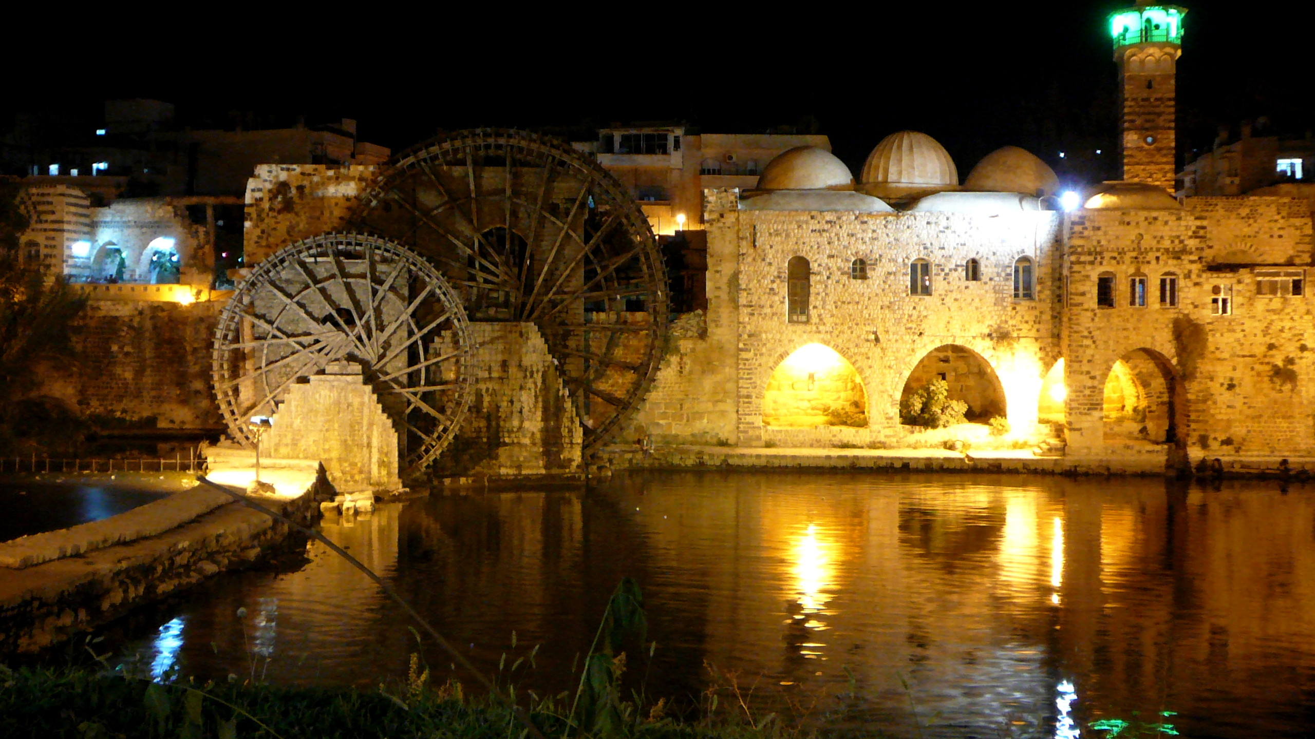 A waterwheel, so called "Noria", next to Mosque Al Noury, Syria